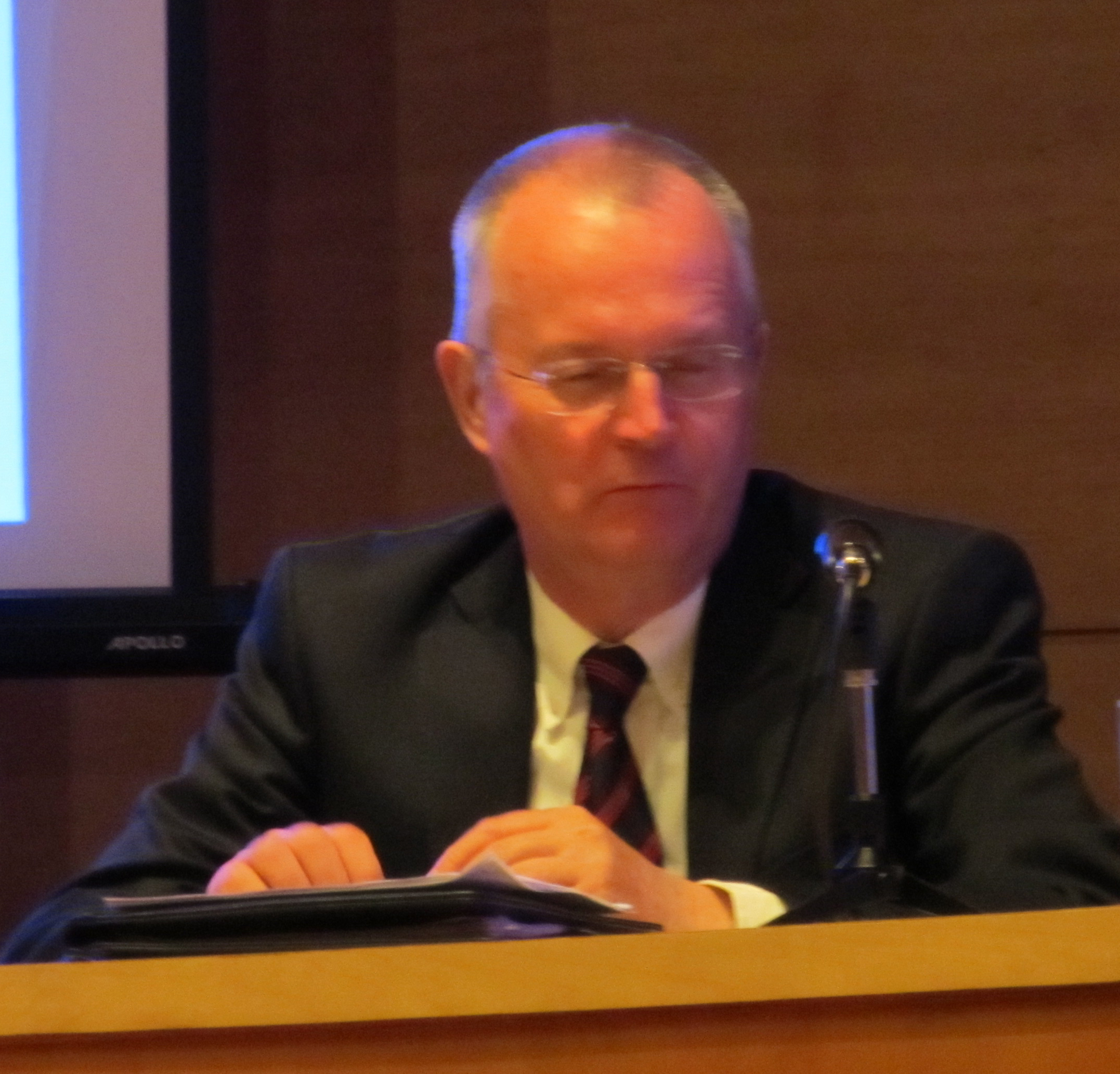 Urs Kindhäuser, german jurist.